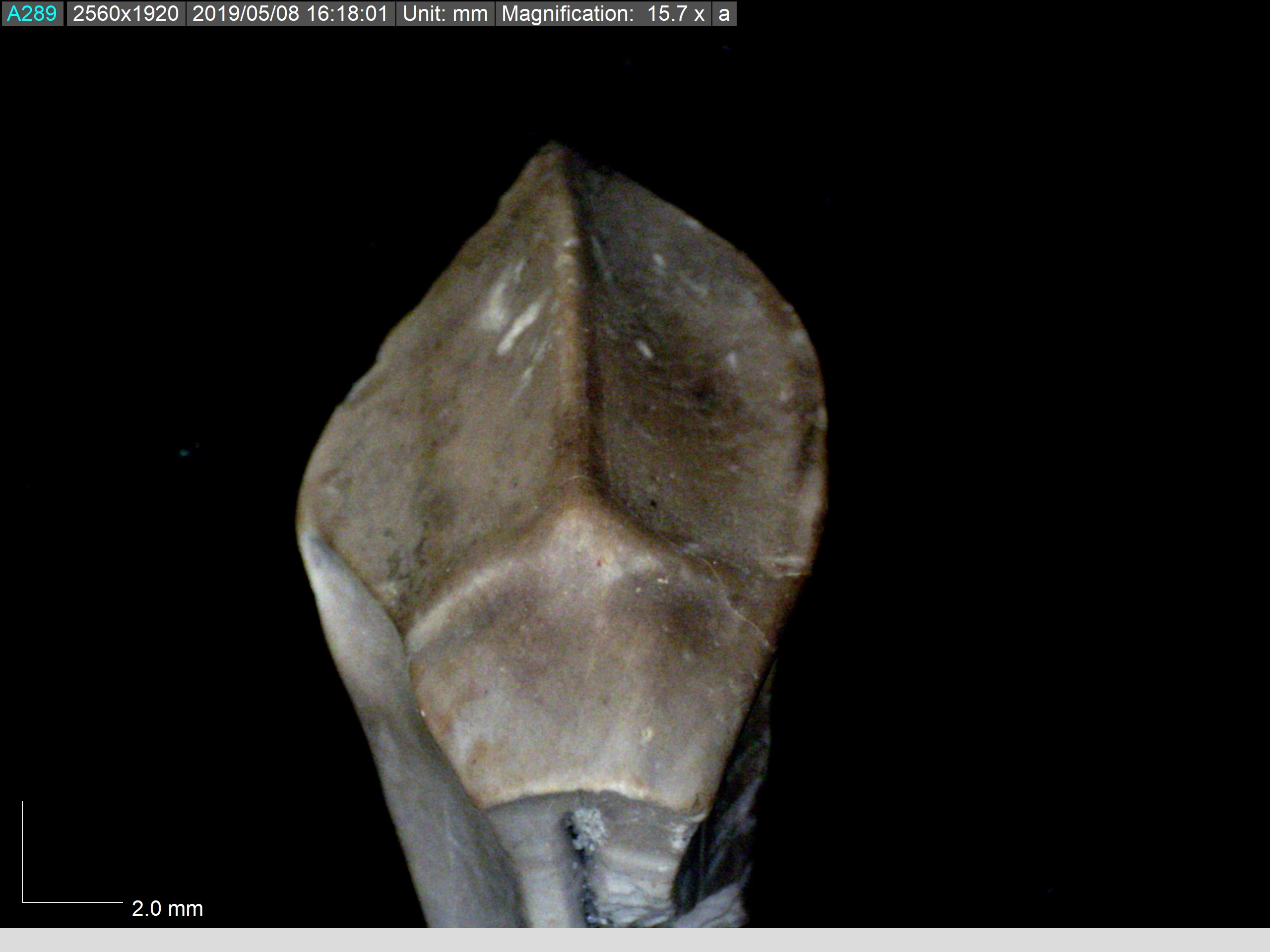 I took this photo while examining the collections at the Royal Tyrrell Museum. I obtained permission from the Collections Manager before taking any photographs. Ceratopsid teeth are broadly leaf-shaped with a primary ridge running down the middle. Unlike most dinosaur teeth, they have two roots.